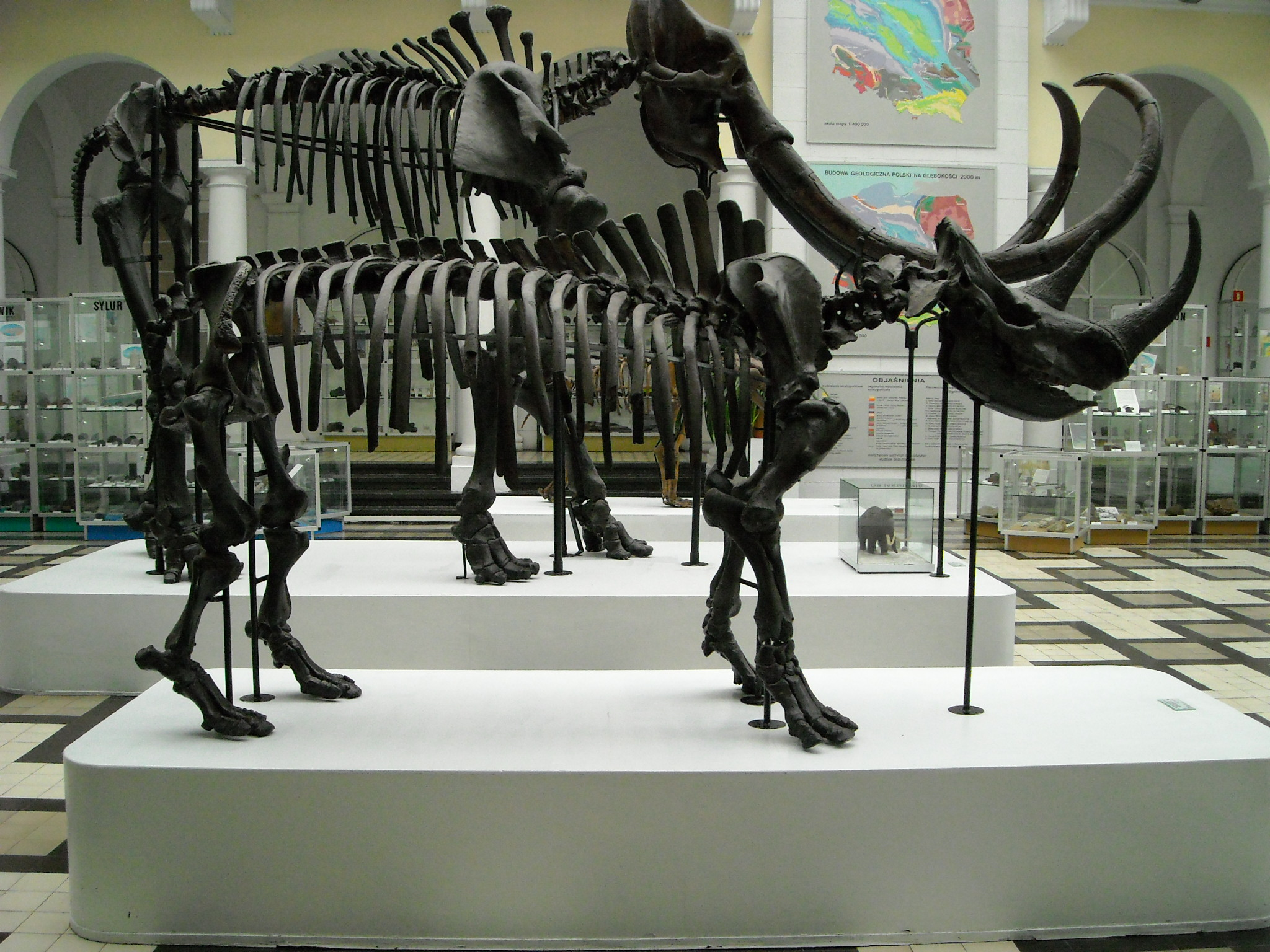 Woolly rhinoceros' (Coelodonta antiquitatis) skeleton (woolly mammoth skeleton in the background).